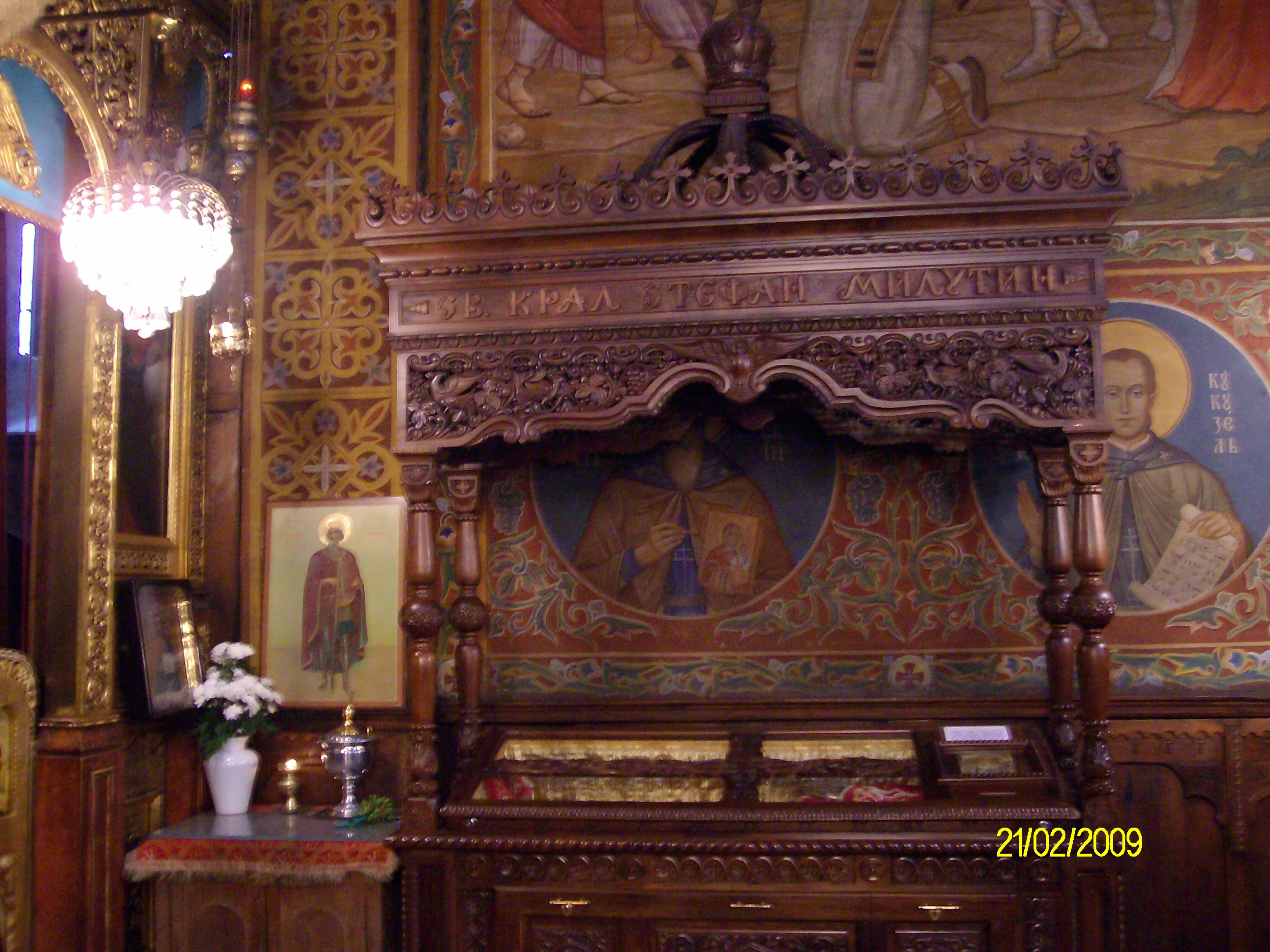 Coffin of relic Stefan Uroš II Milutin